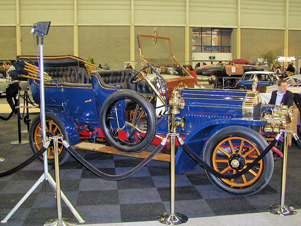 28 HP model with 5878 cc 4-cylinder pair-cast engine and shaft drive, made in Belgium by Minerva Motors SA; side view